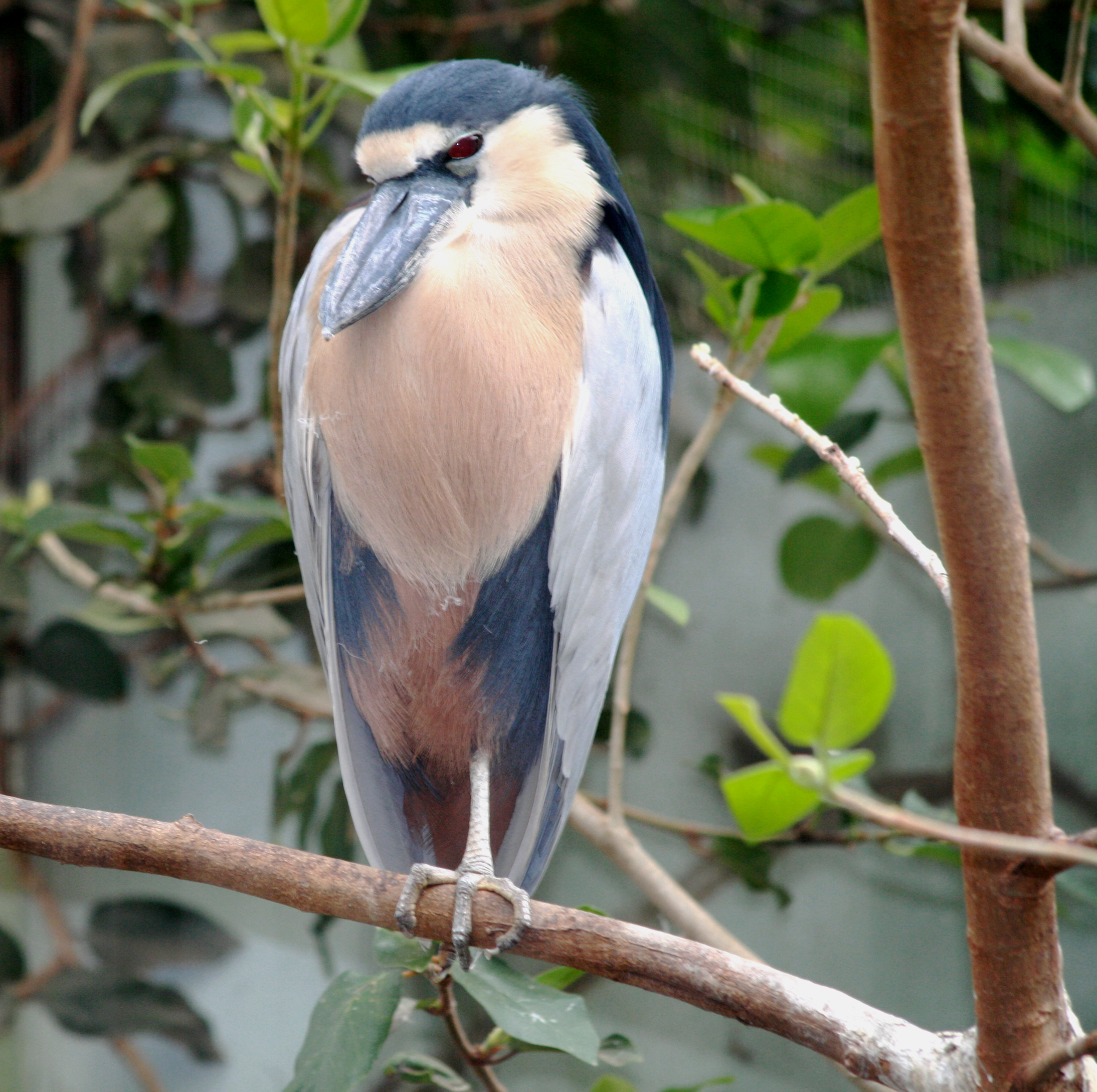 Boat-billed Heron, Cochlearius cochlearius in ZOO Dvůr Králové, Czech Republic